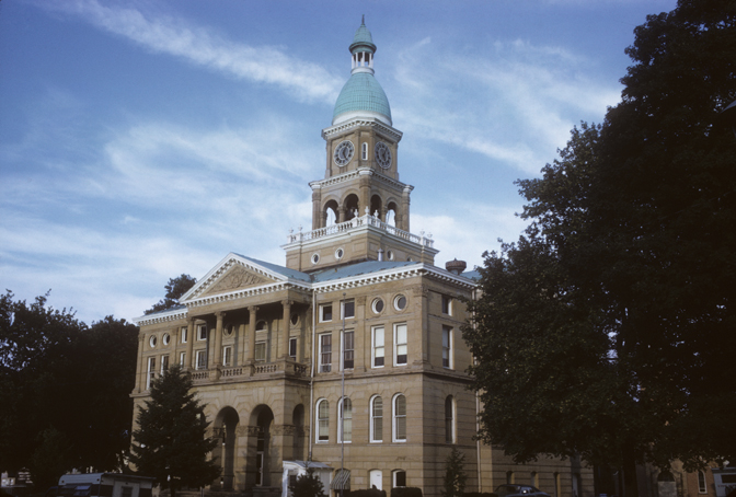 Front of the Hillsdale County Courthouse, located along Howell Street in Hillsdale, Michigan, United States. Built in 1898, it is listed on the National Register of Historic Places.